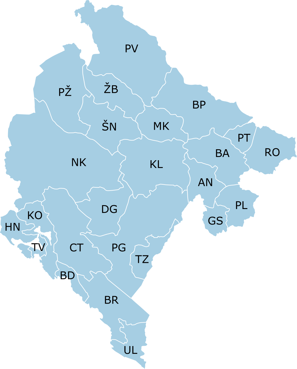 map of the montenegrin license plate codes From Image:Montenegro municipalities.png (by User:PANONIAN)